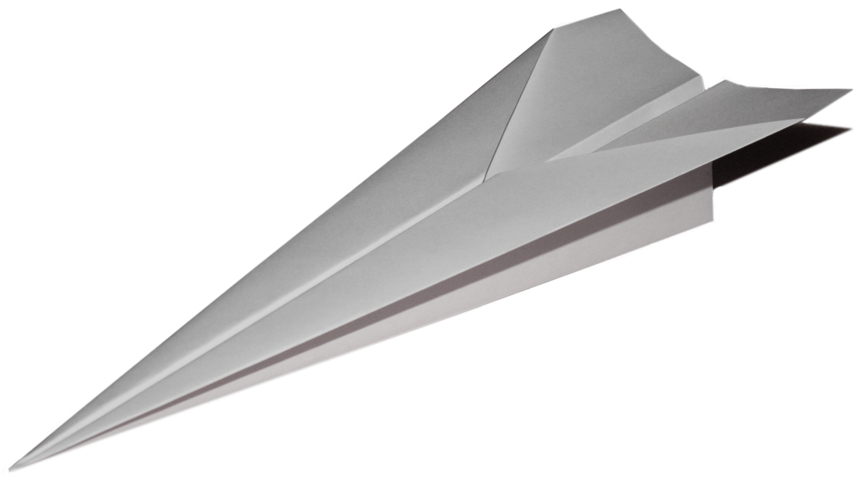 Paper airplane